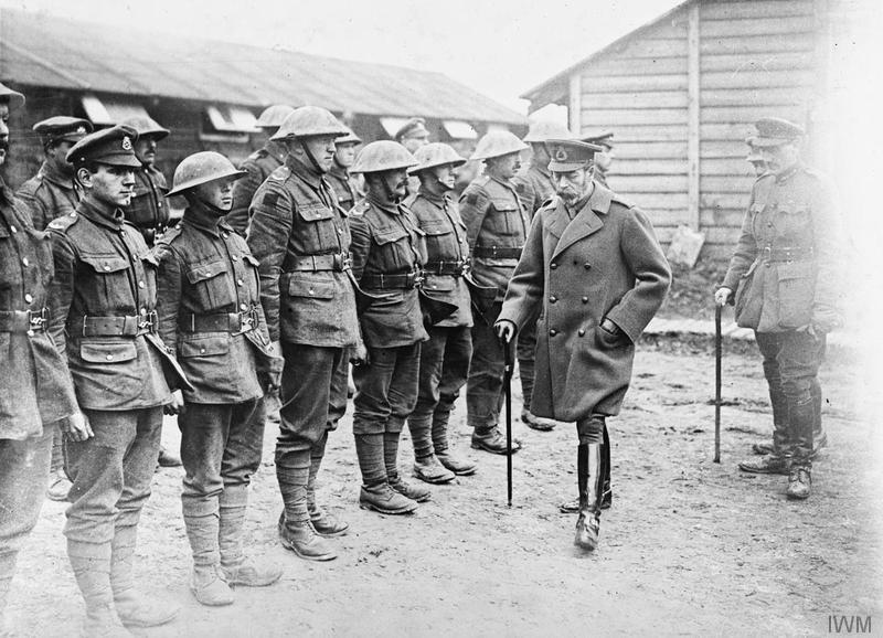 The German Spring Offensive, March-july 1918 King George V inspecting the remnants of the 2/6th Battalion, North Staffordshire Regiment (59th Division); Gauchin, 30th March 1918.